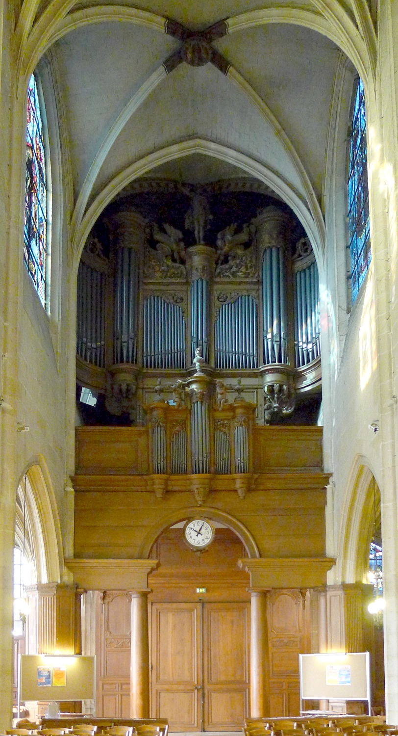 Saint-Médard church - Paris